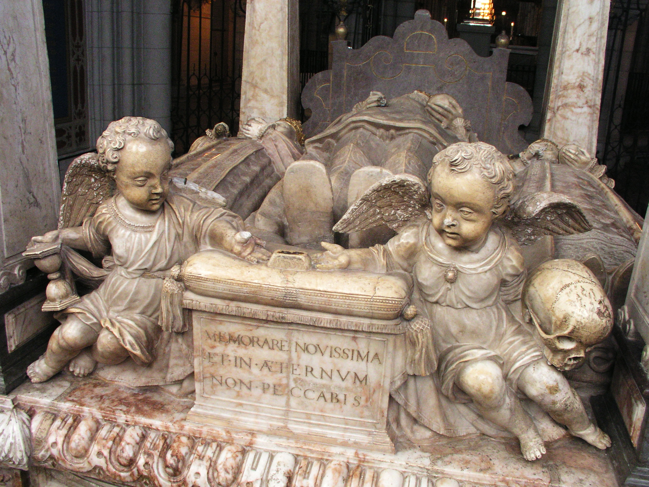 Uppsala domkyrka / Uppsala cathedral. Grave of Gustav Vasa and two of his wives; the inscription read: memorare novissima, et in aeternum non peccabis (the Vulgate's Latin rendering of Ecclesiasticus 7:40: "[in all thy works] be mindful of [thy] last end and thou wilt never sin.")